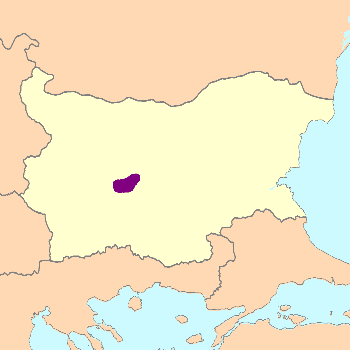 Splotch-faced Sheep area of distribution